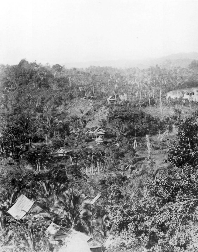 Swidden landscape (with swidden houses), Poso area, circa 1905